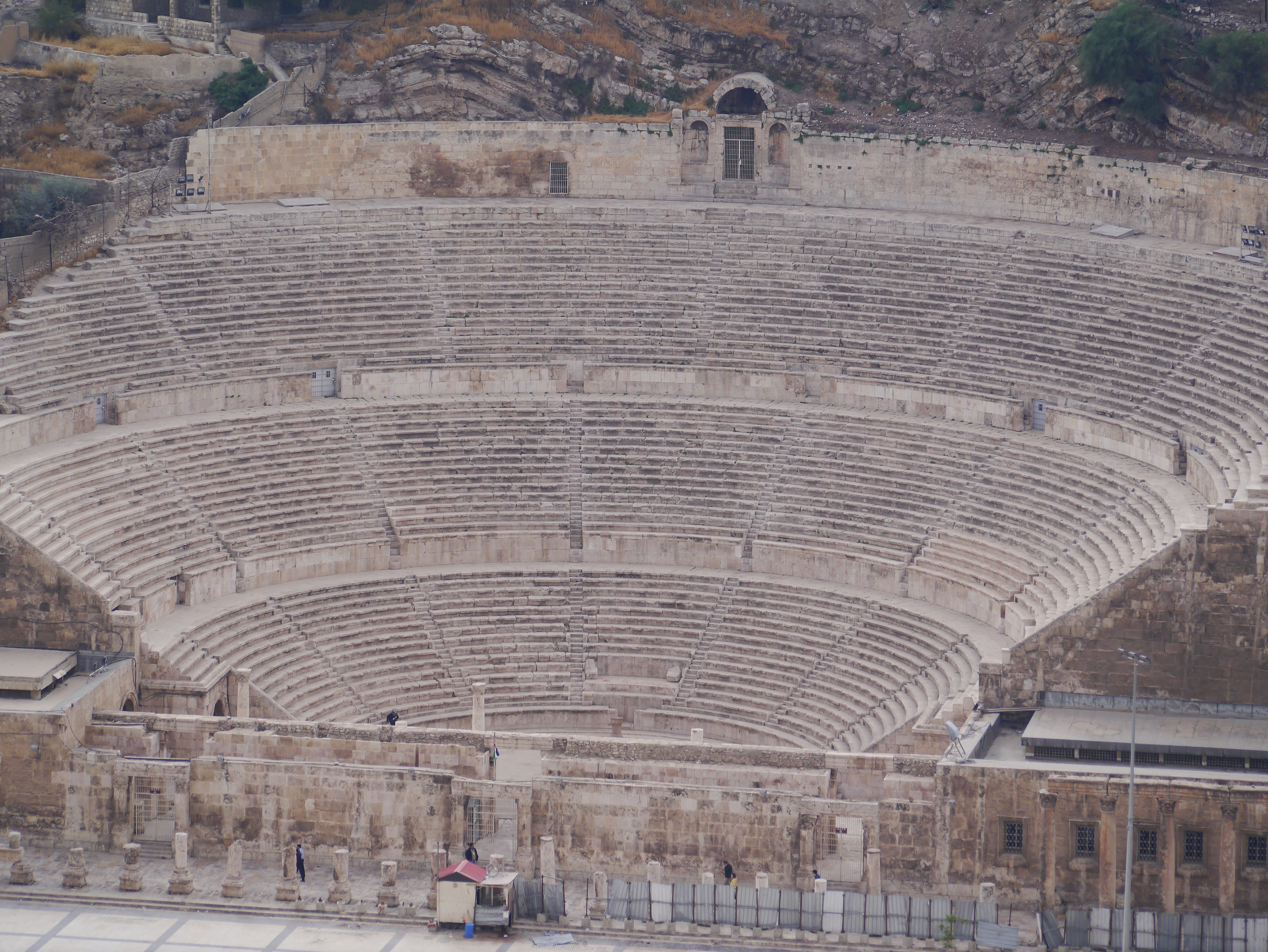 Roman Theatre, Amman, North western Jordan